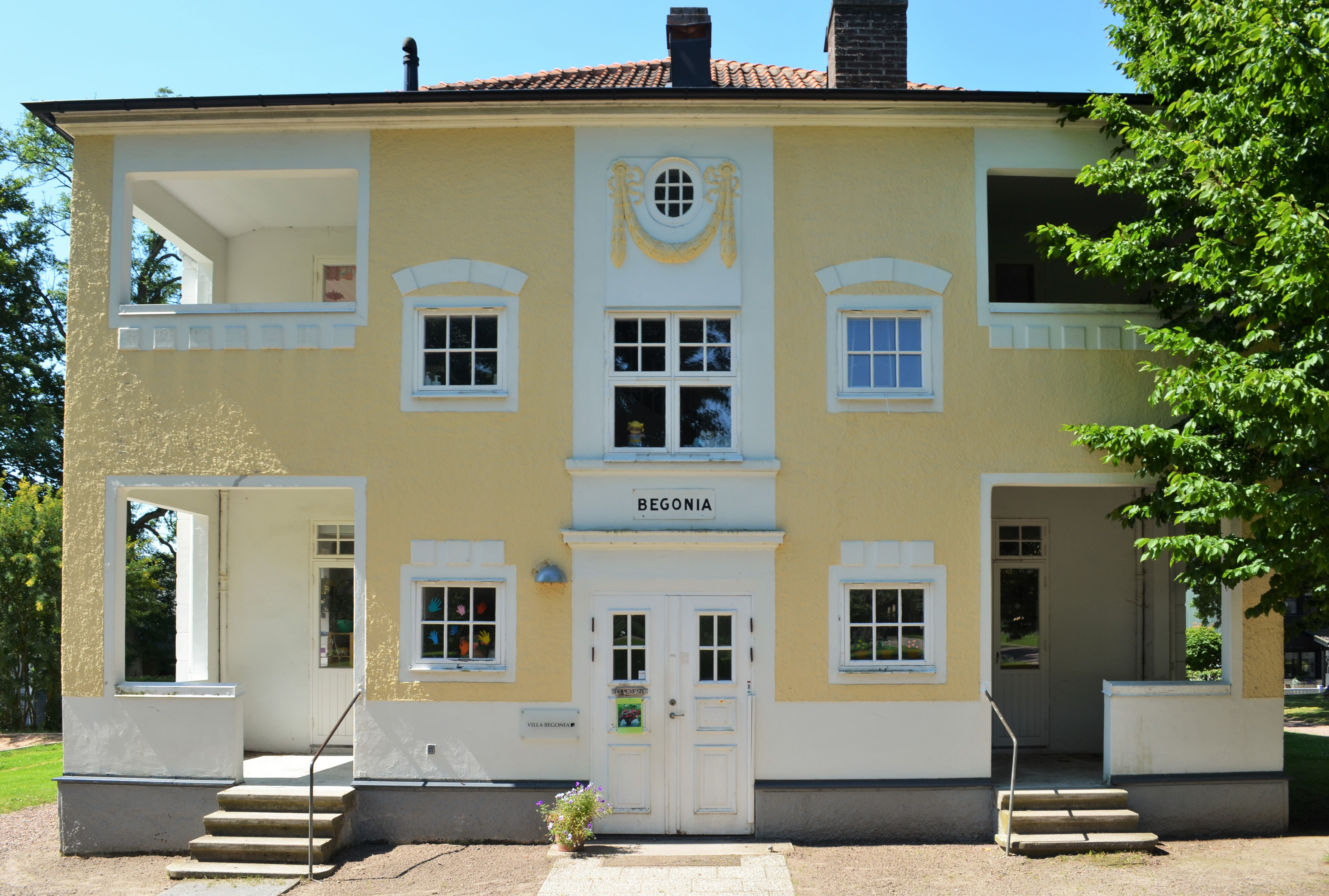 Villa Begonia in Ramlösa hälsobrunn.